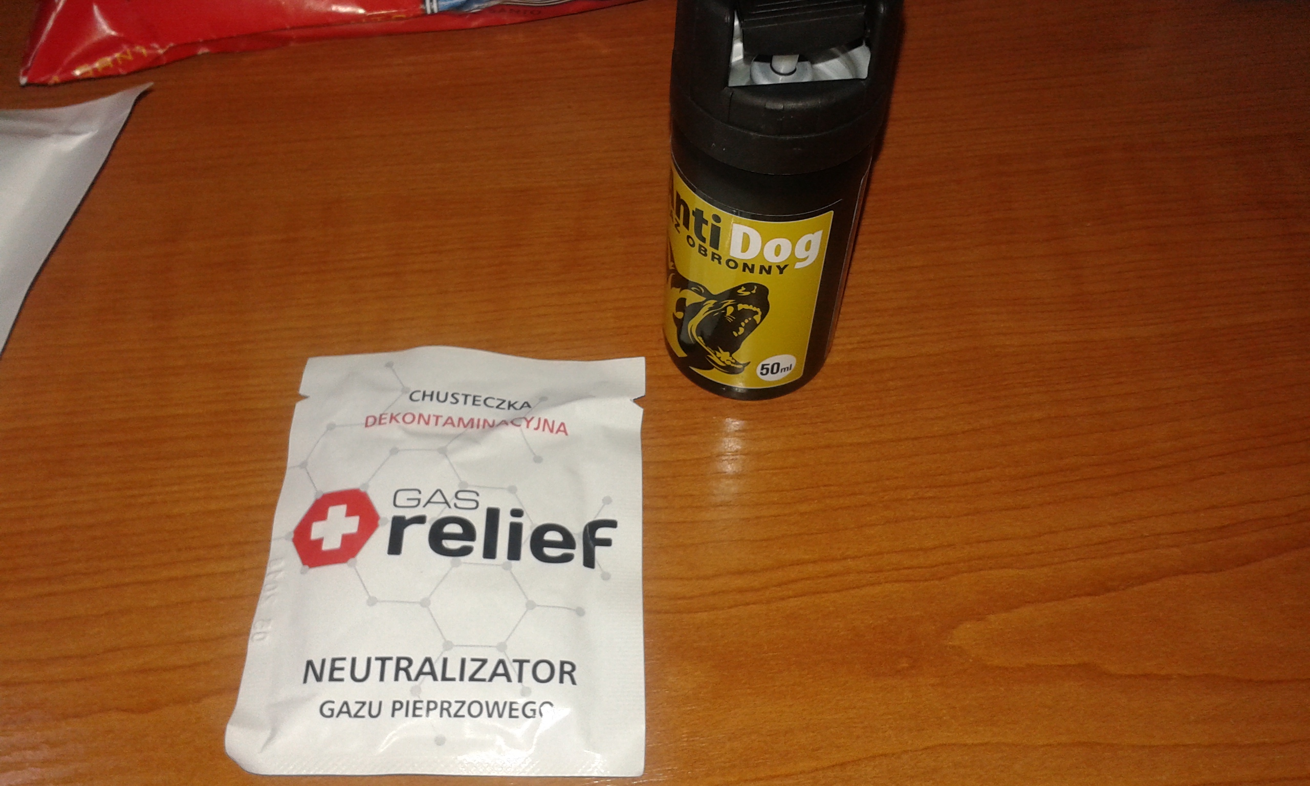 Pepper spray and decontaminating herbal handkerchief. 16 x 18 cm when unfolded.